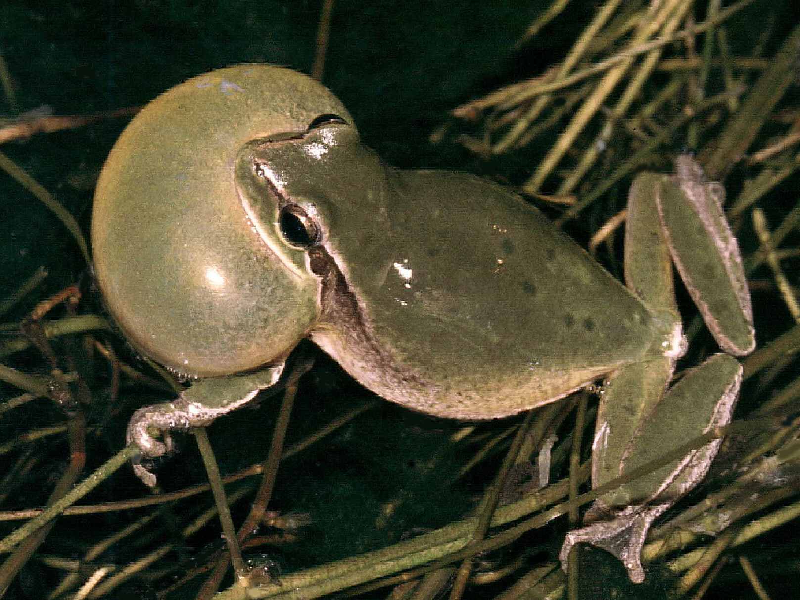 Calling Mediteranean treefrog, state at the end of a call. To form a call air is conveyed from the lungs into the air bladder, which is now maximmally bloated. After the call the air immediately flows back into the lungs, now voiceless